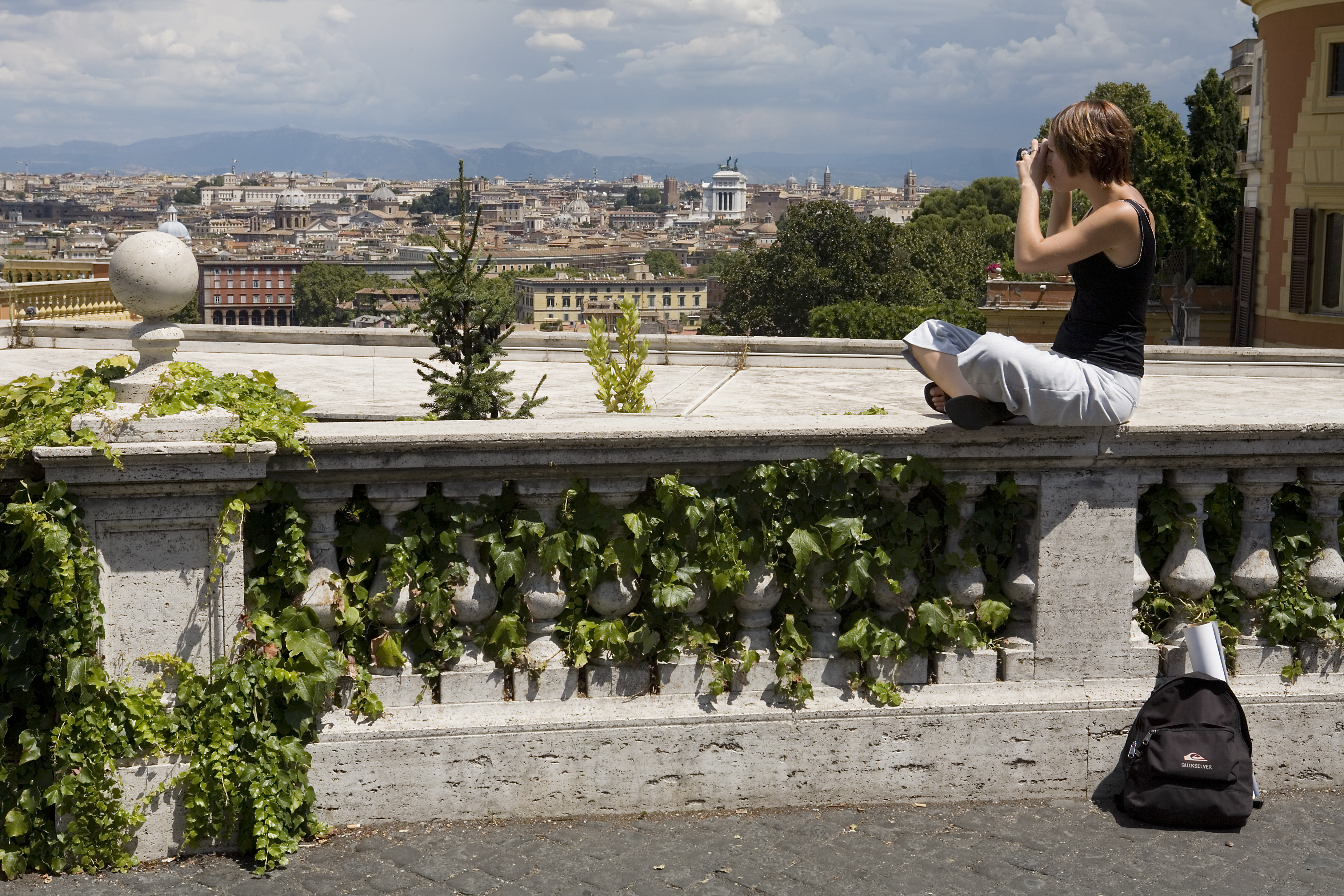 A young Danish tourist girl enjoys the view of Rome from Monte Gianicolo, Rome, Italy